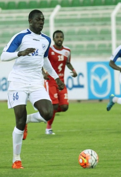 Abdoulaye Dieng in a match against Dhofar Club. Sohar Sports Complex, Sohar, Oman 20 February 2016 Photographer email id